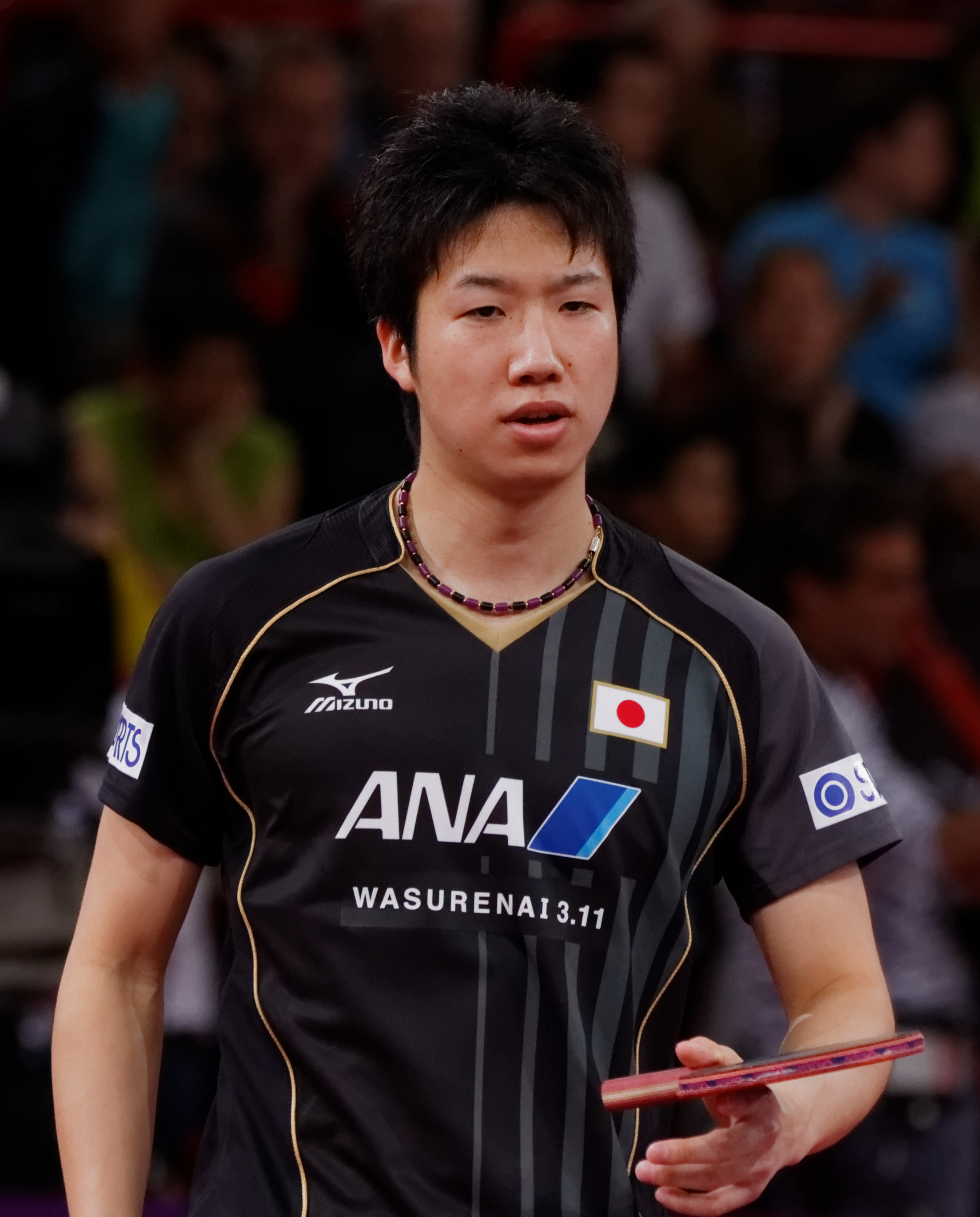 2013 World Table Tennis Championships, Paris. Men's Doubles Semifinals. Hao Shuai - Ma Lin vs Seiya Kishikawa - Jun Mizutani